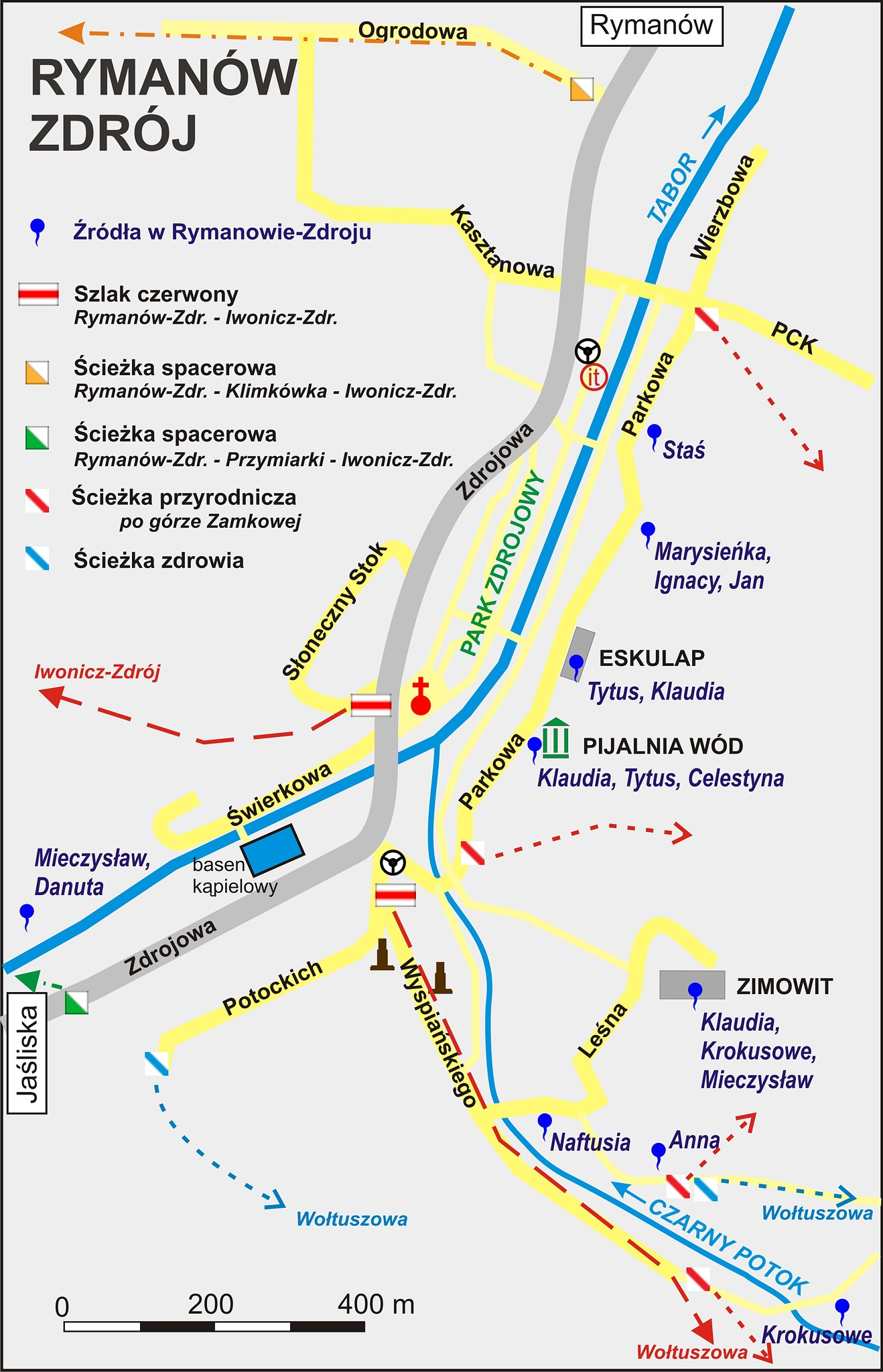 Plan Rymanowa-Zdroju. Mineral waters, slags and paths in Rymanowie-Zdroju.